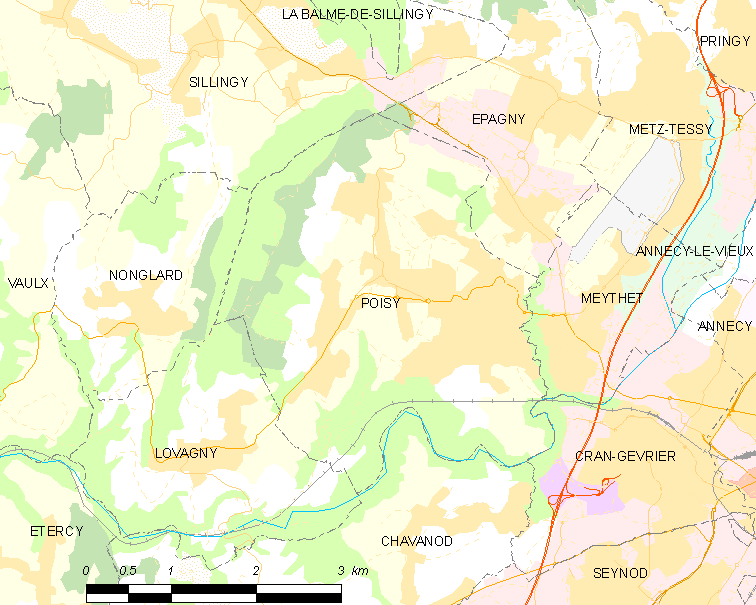 Map of French municipality Poisy